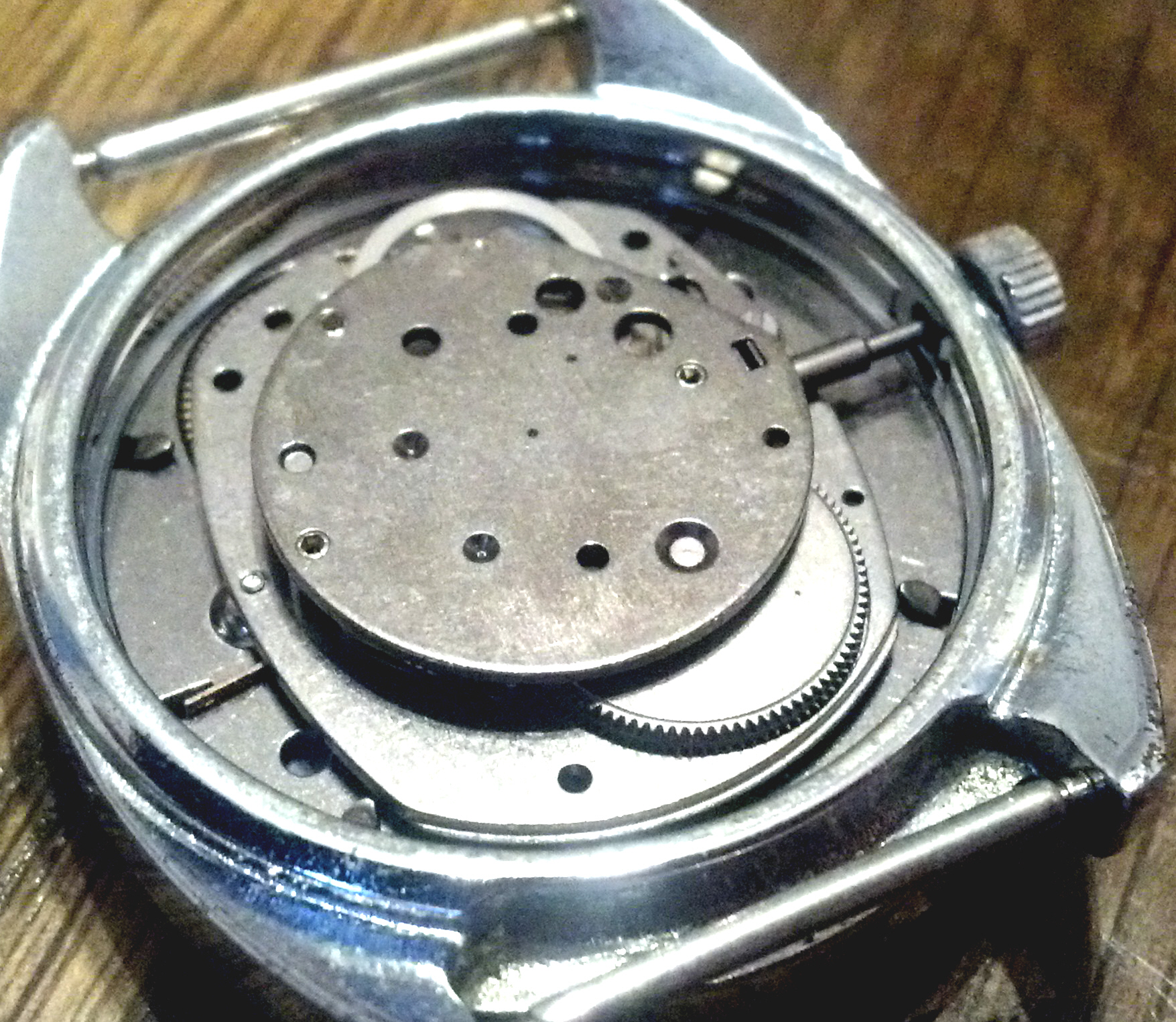 Timex movement of the 1970s